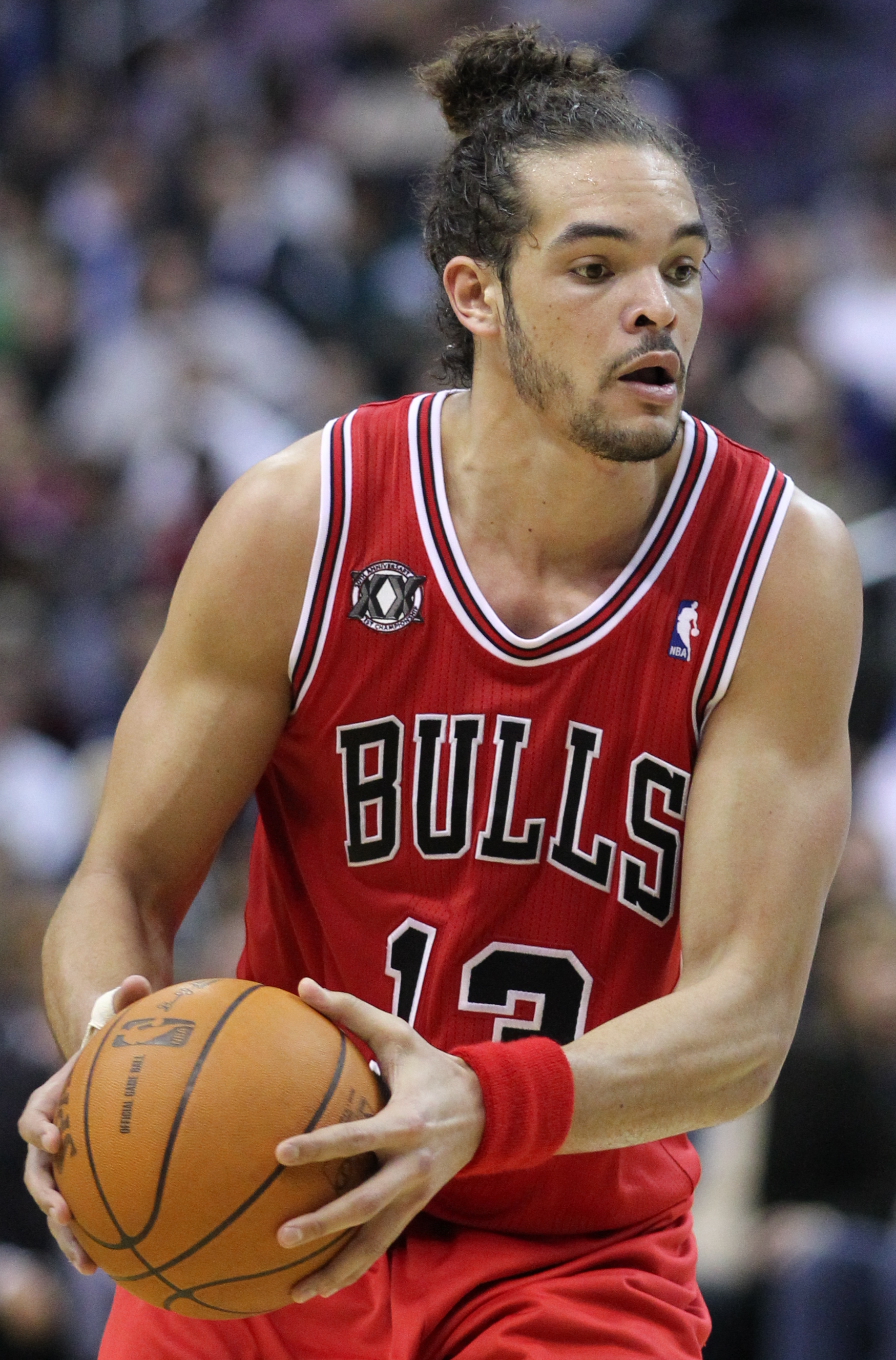 Wizards v/s Bulls 02/28/11